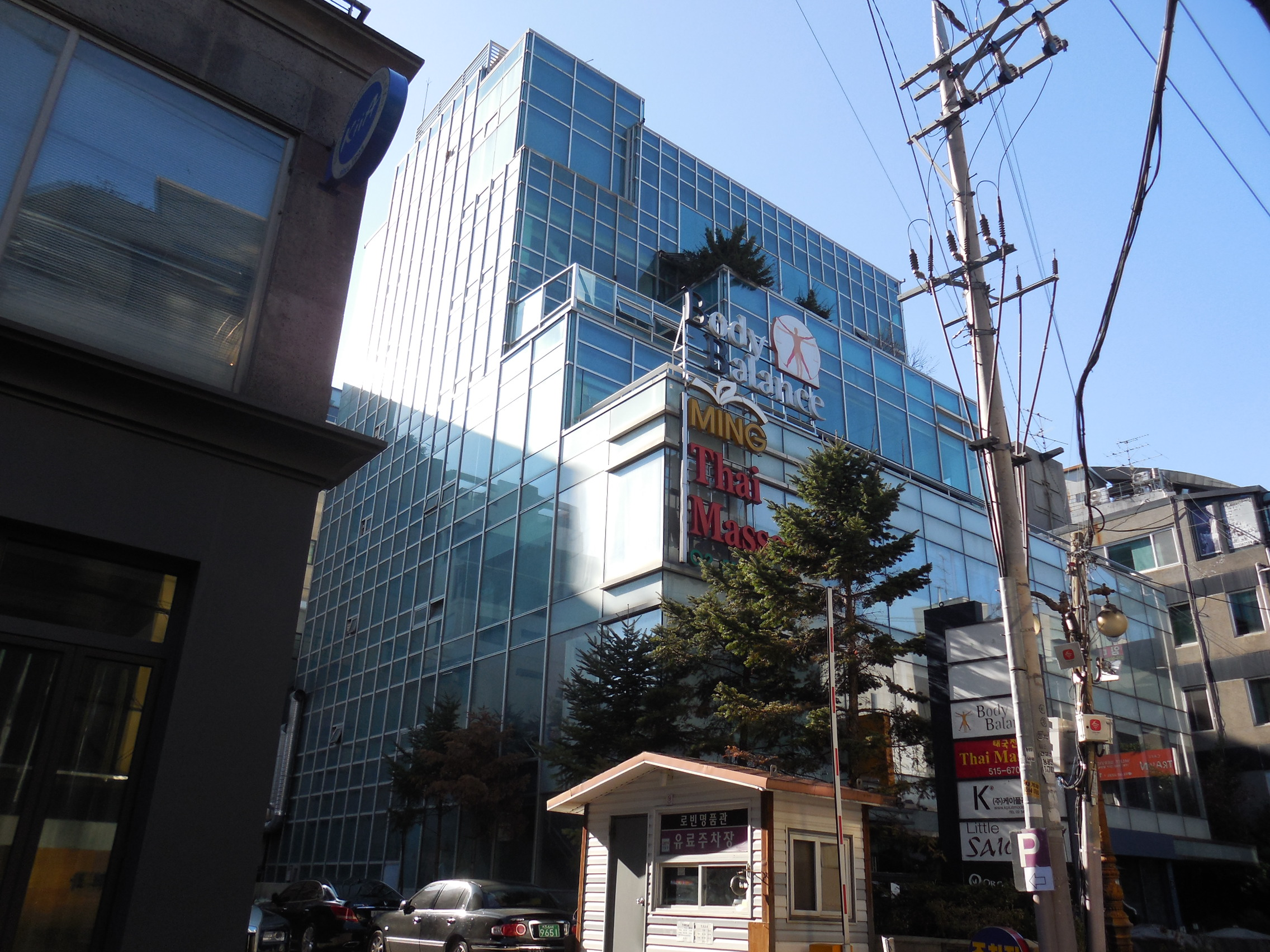 Miseung Building, Sinsa-dong, Gangnam-gu, Seoul